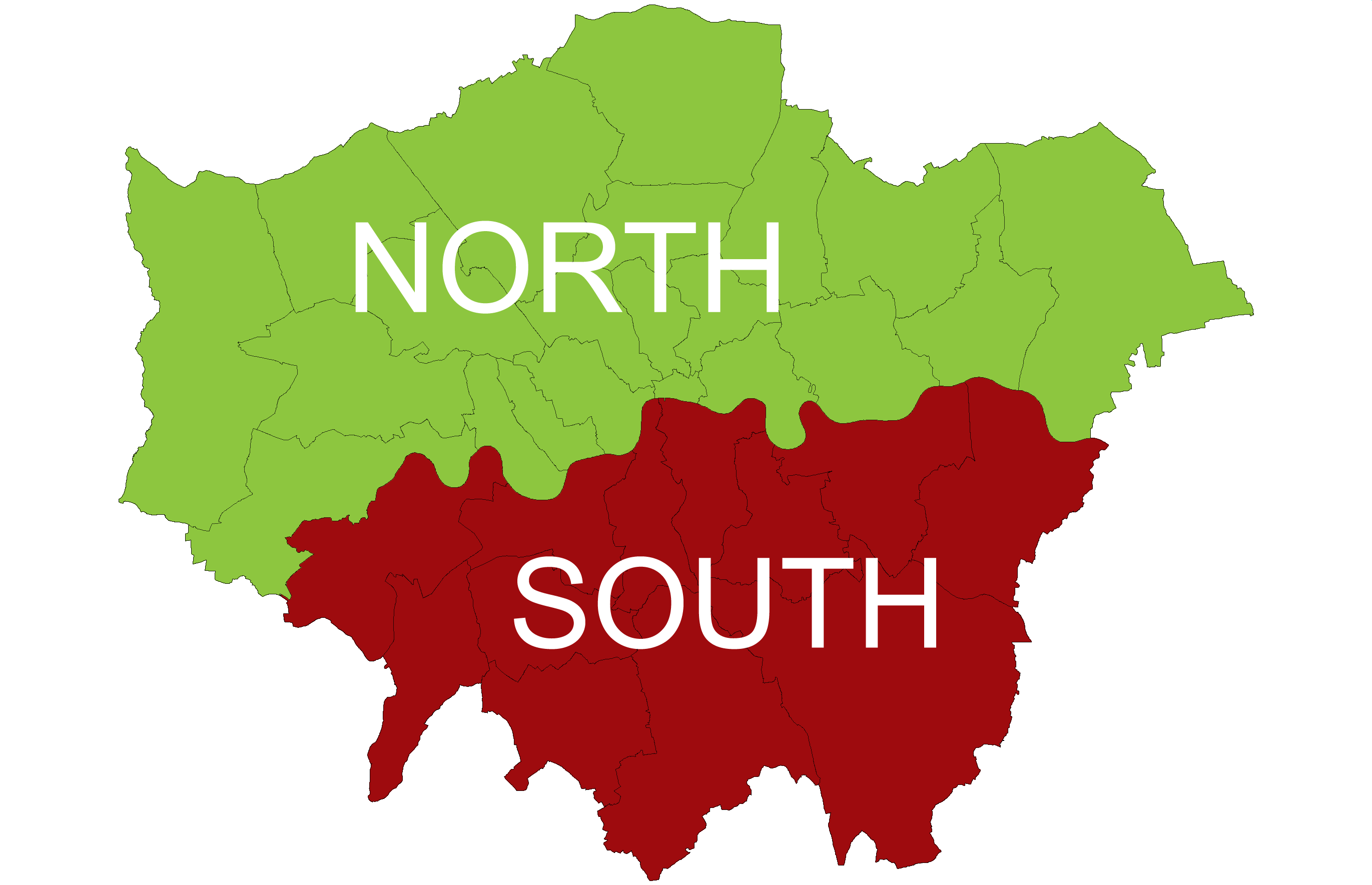 North and South London as defined by Boundary Commission